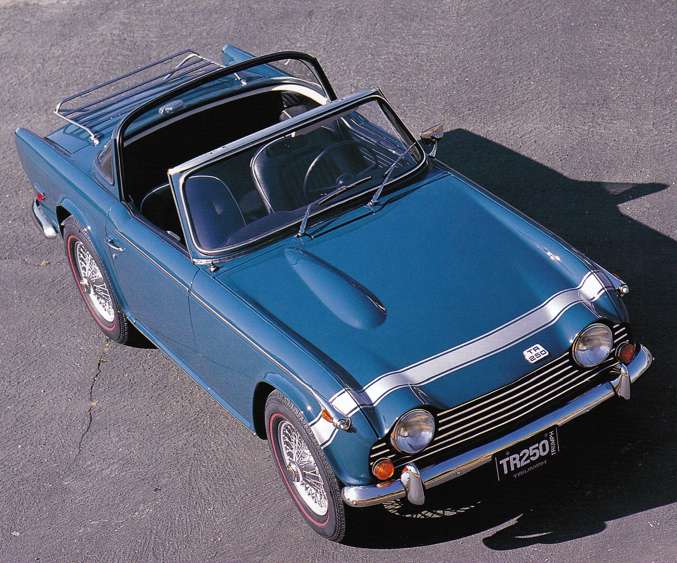 Triumph TR250 Valencia blue with Surrey Top